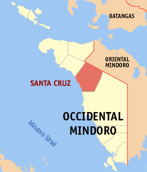 Map of Occidental Mindoro showing the location of Santa Cruz